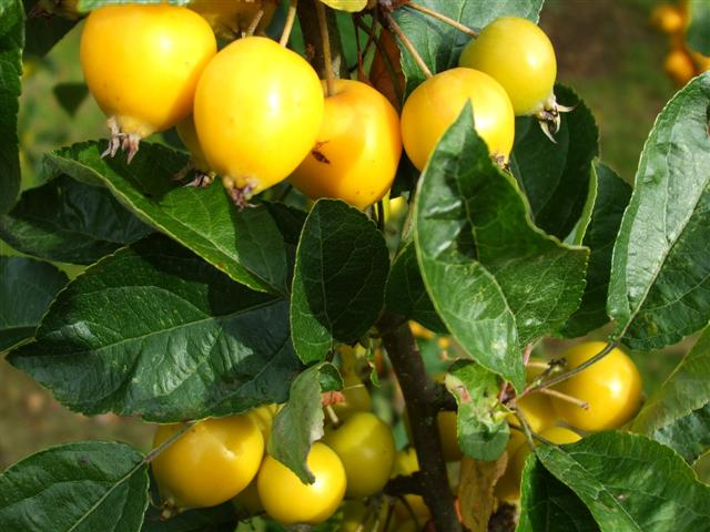 Malus floribunda "Golden Hornet". Pictured at the Southwaite Service Station. Possibly a type of crab-apple cultivar, 983357 more at